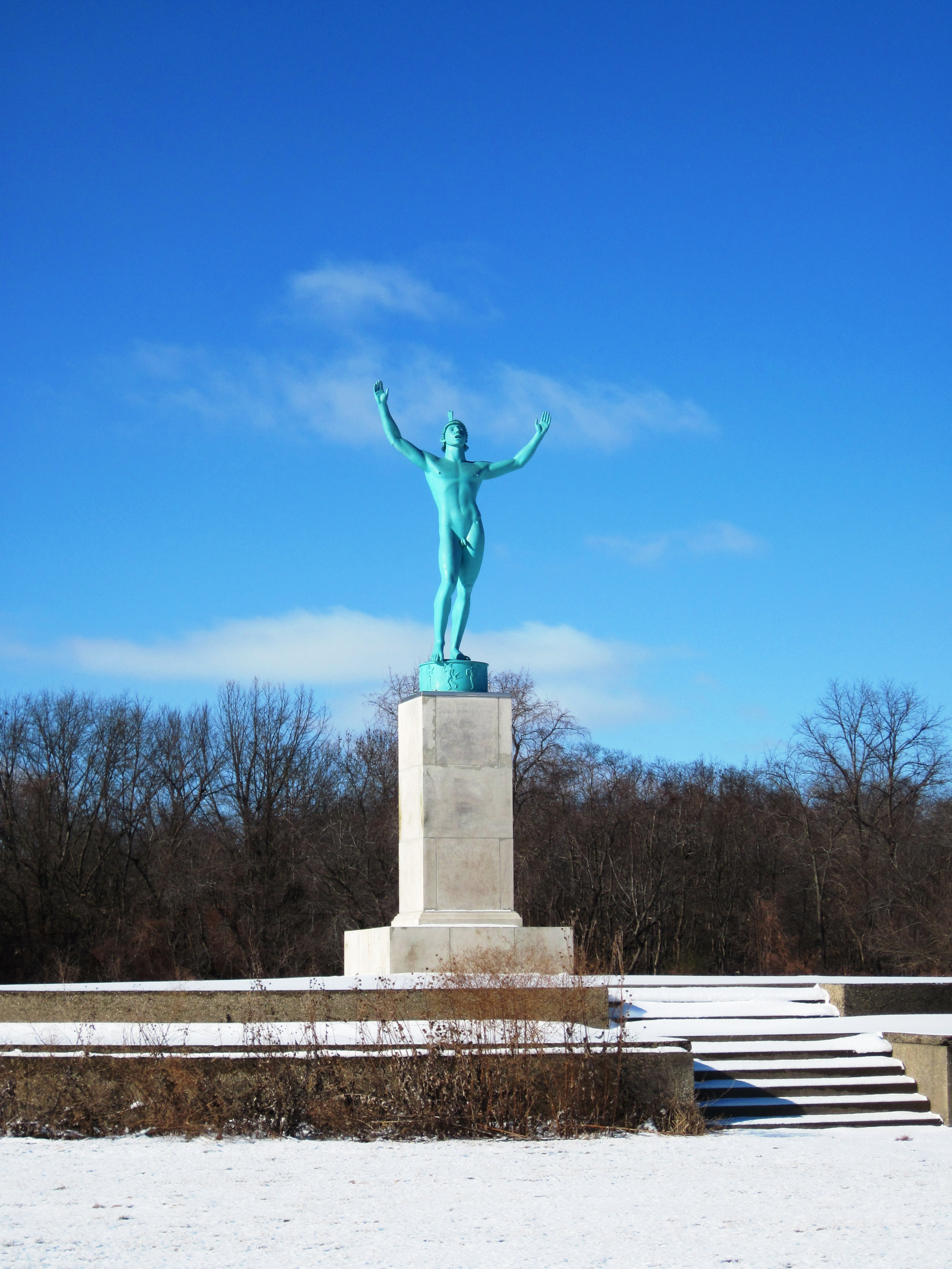 Robert Allerton Estate, 515 Old Timber Rd. Monticello